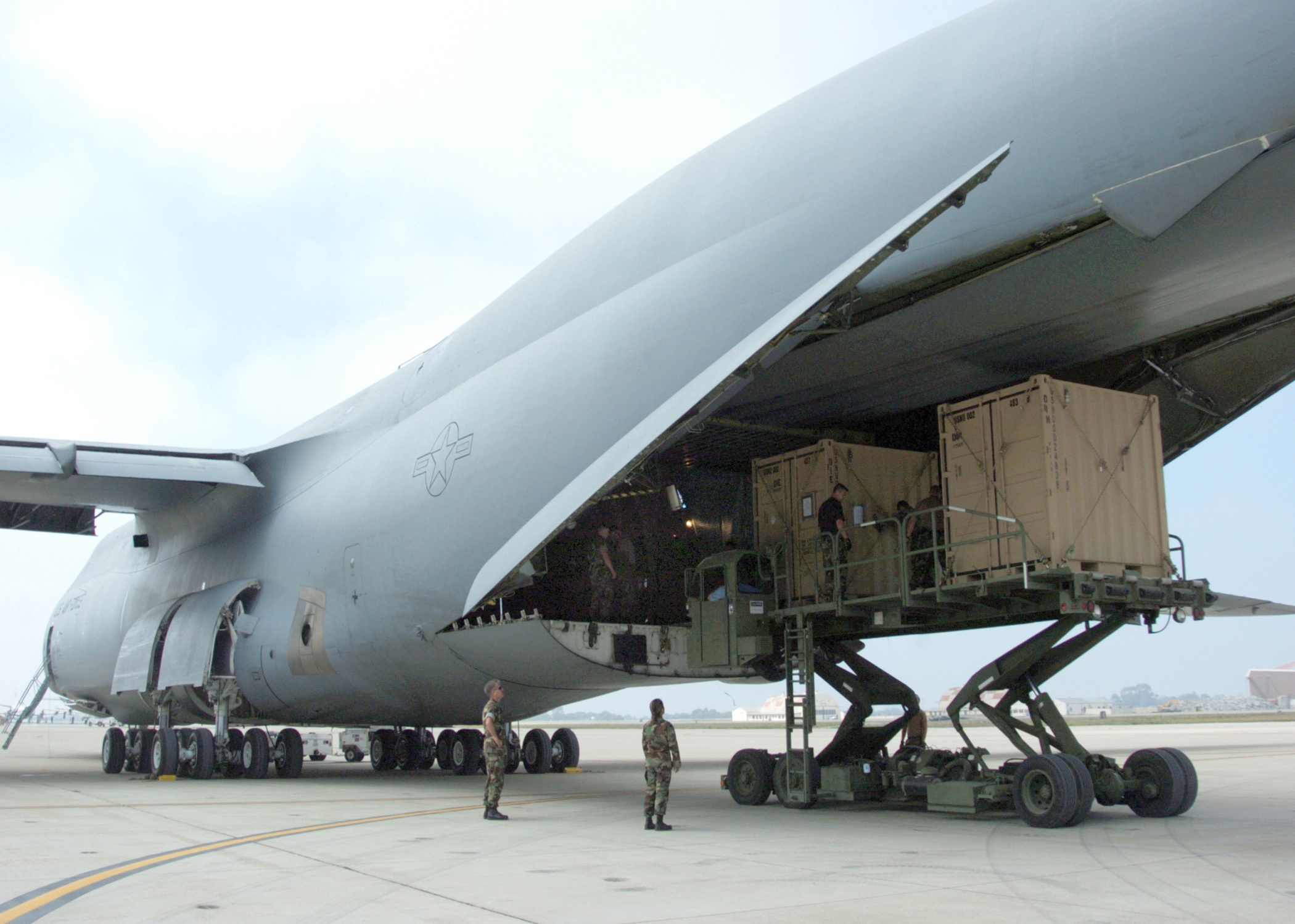 Point Mugu, Calif. (Aug. 31, 2006) - Members of Naval Mobile Construction Battalion Four (NMCB-4) load Tricon Containers loaded with construction equipment destine for field testing in Iraq, into a U.S. Air Force, Air Mobility Command, C-5 Galaxy transport aircraft. NMCB-4 is homeported at Construction Battalion Center, Port Hueneme, Calif. U.S. Navy photo by Mass Communication Specialist 2nd Class Ronald Gutridge (RELEASED)